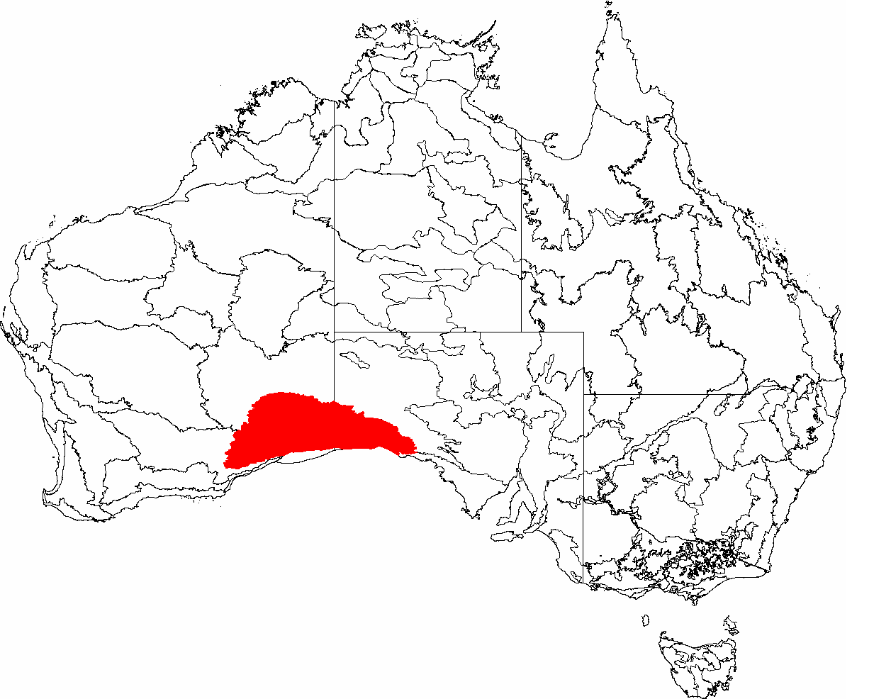 This is a map of the Interim Biogeographic Regionalisation of Australia (IBRA), with state boundaries overlaid. The Nullarbor region is shown in red.